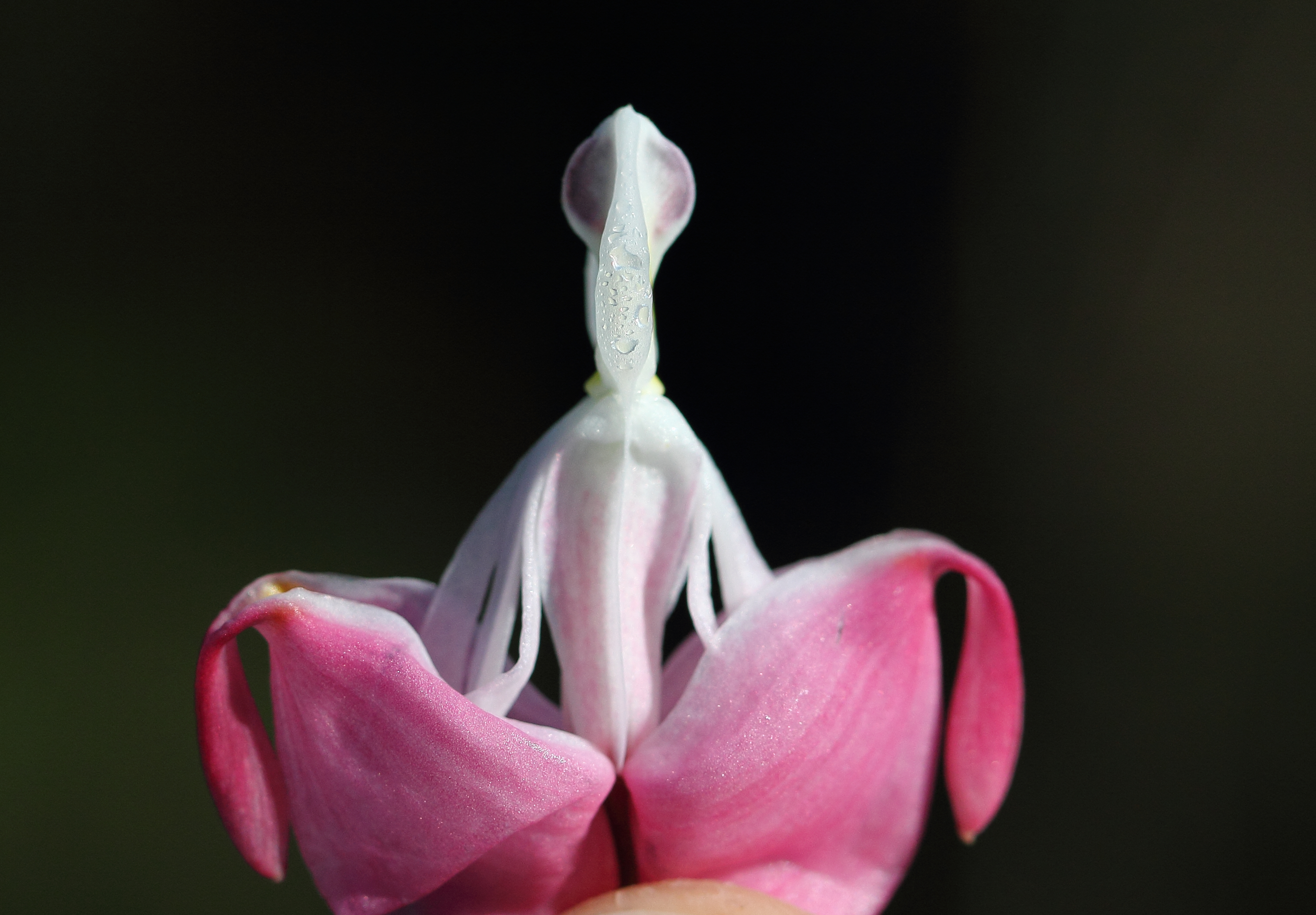 Close-up of bleeding-heart blossom, upside-down to make the "lady in a bath" visible. Picture taken in private garden.